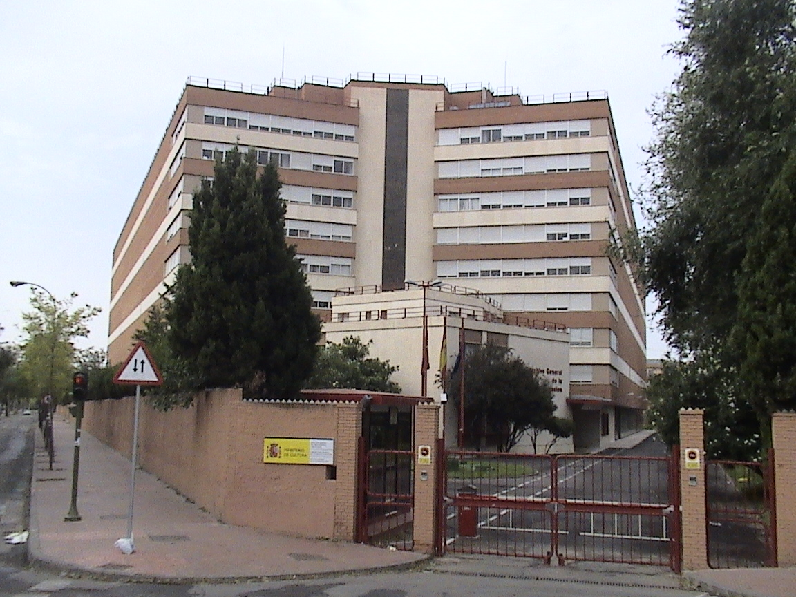 General Archive of the Administration of Spain, located in Alcalá de Henares (Community of Madrid - Spain).